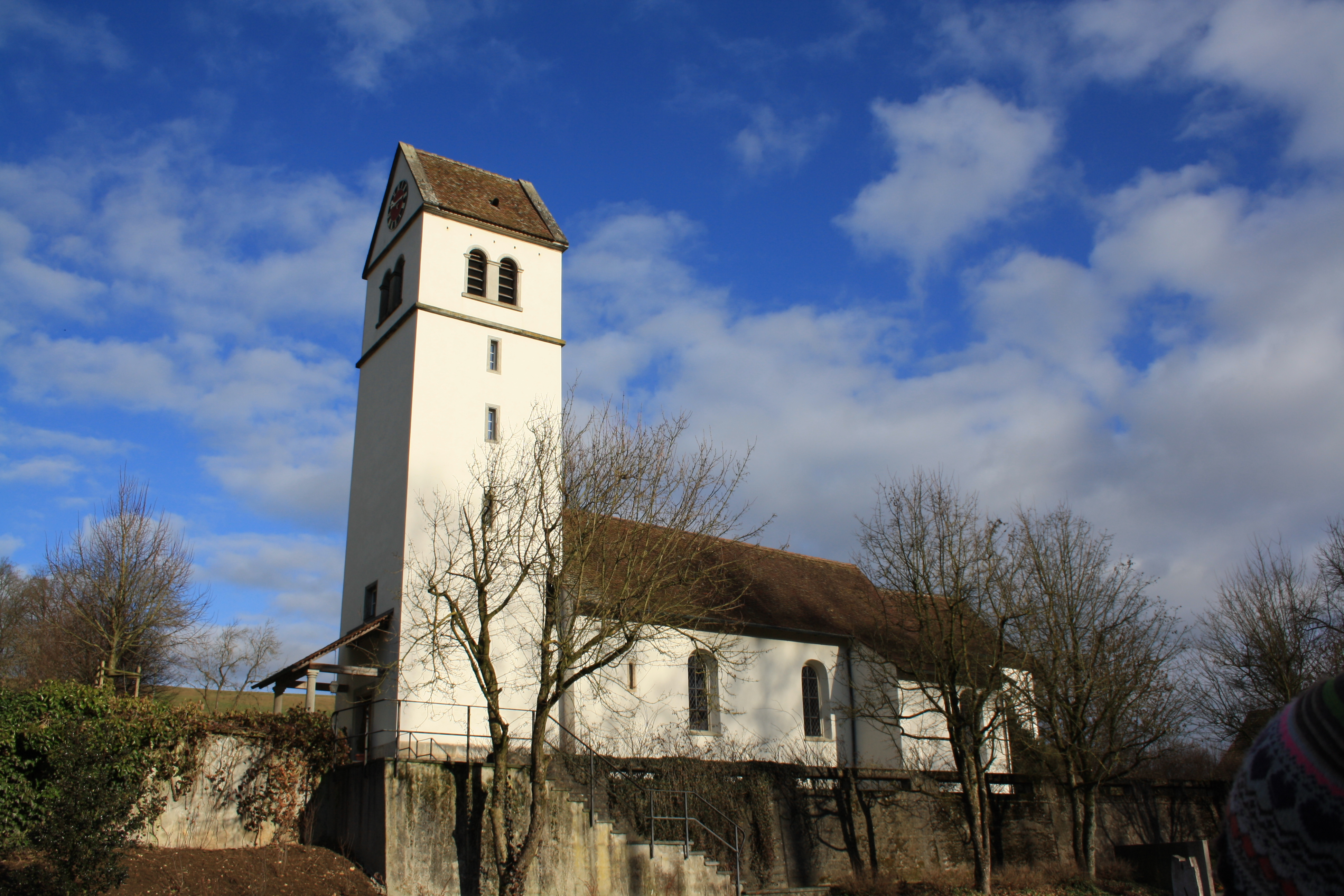 Reformed church of Bözberg